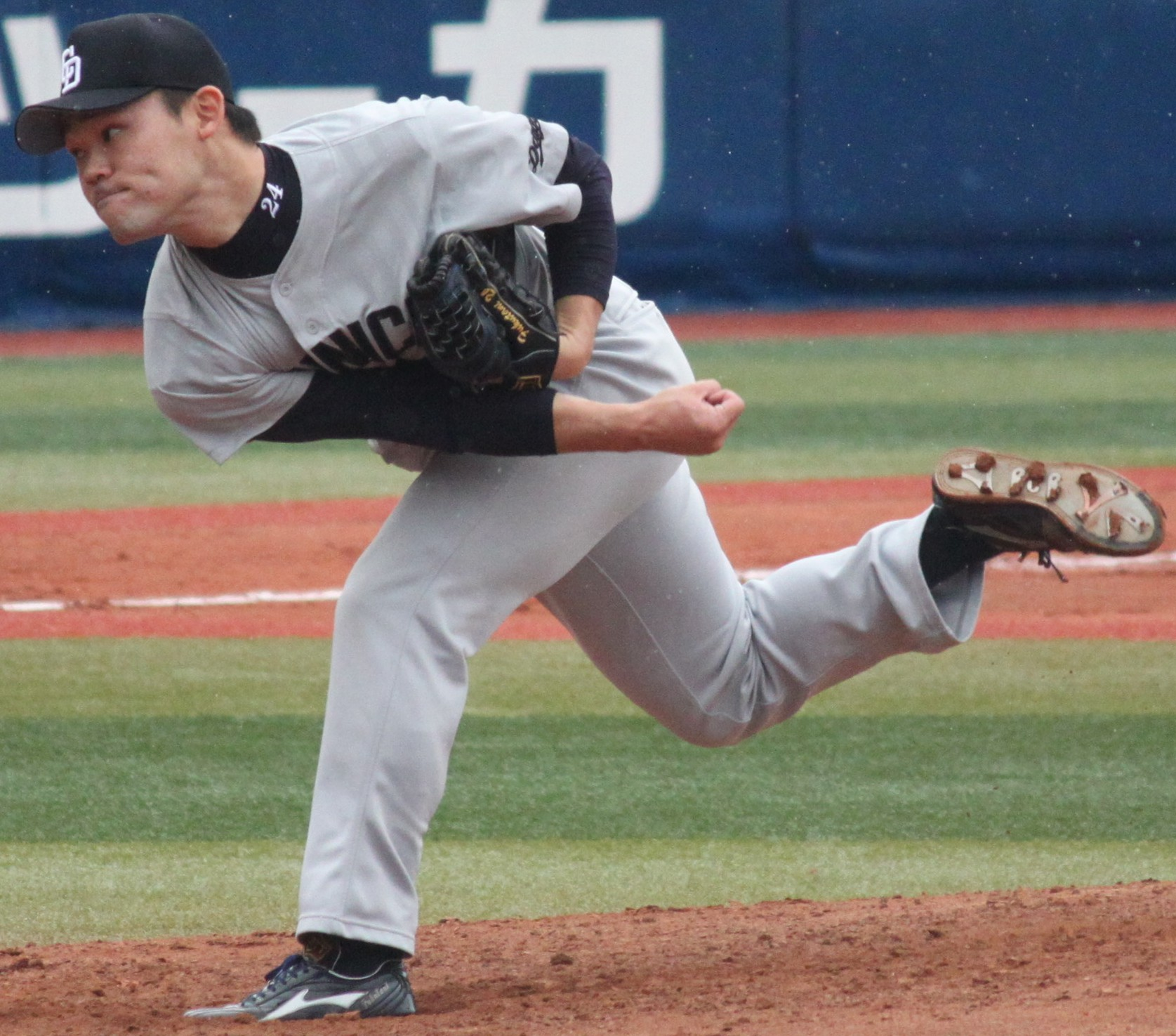 Koji Fukutani, pitcher of the Chunichi Dragons, at Yokohama Stadium.